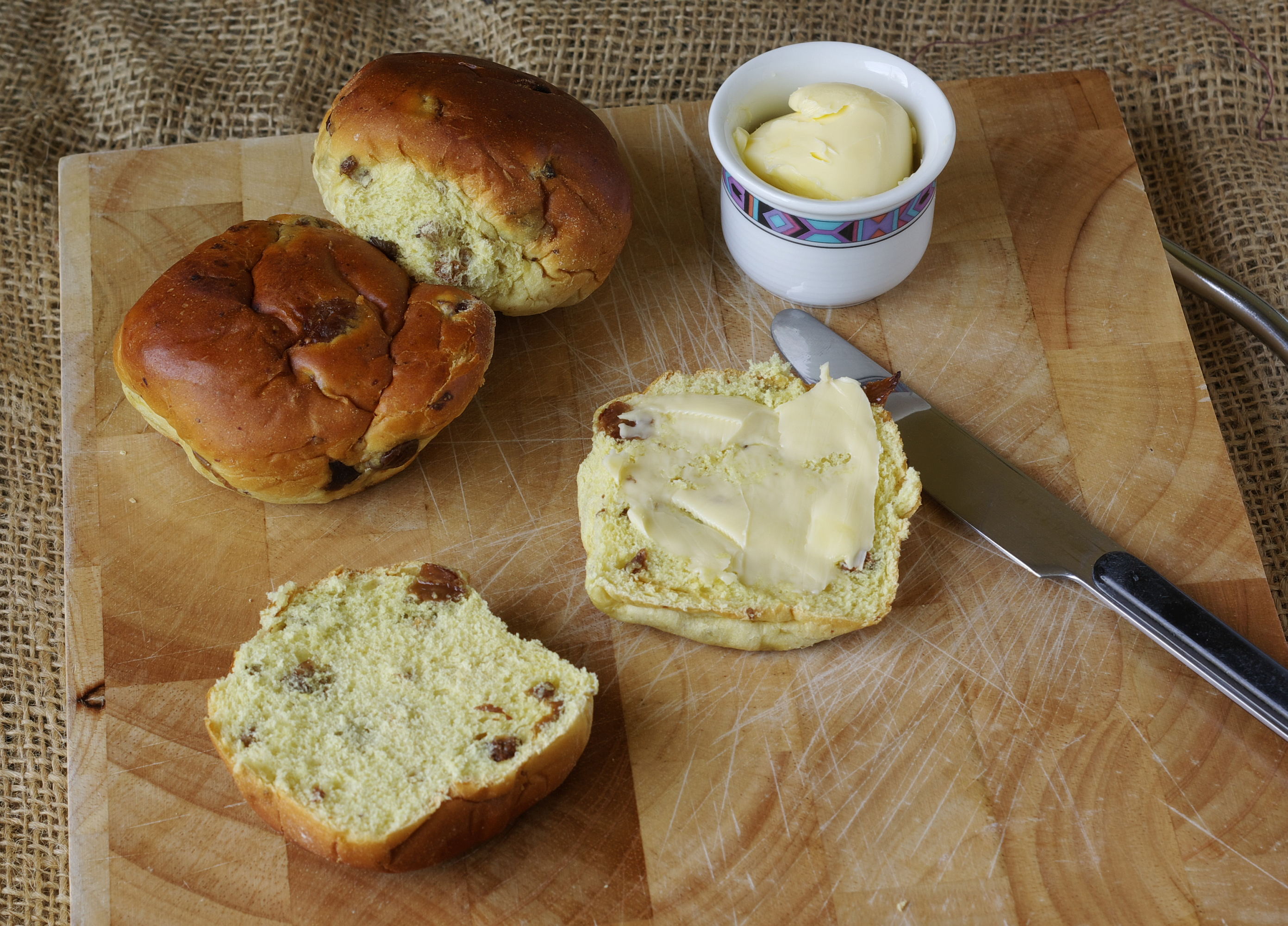 Minikrentenbollen (mini currant buns), small rolls with raisins